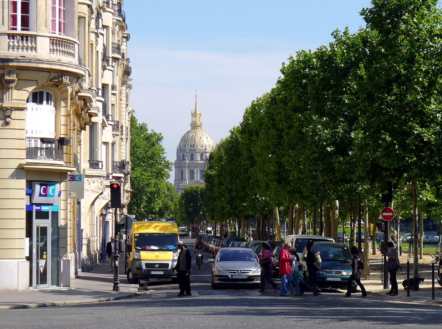 Breteuil avenue - Paris